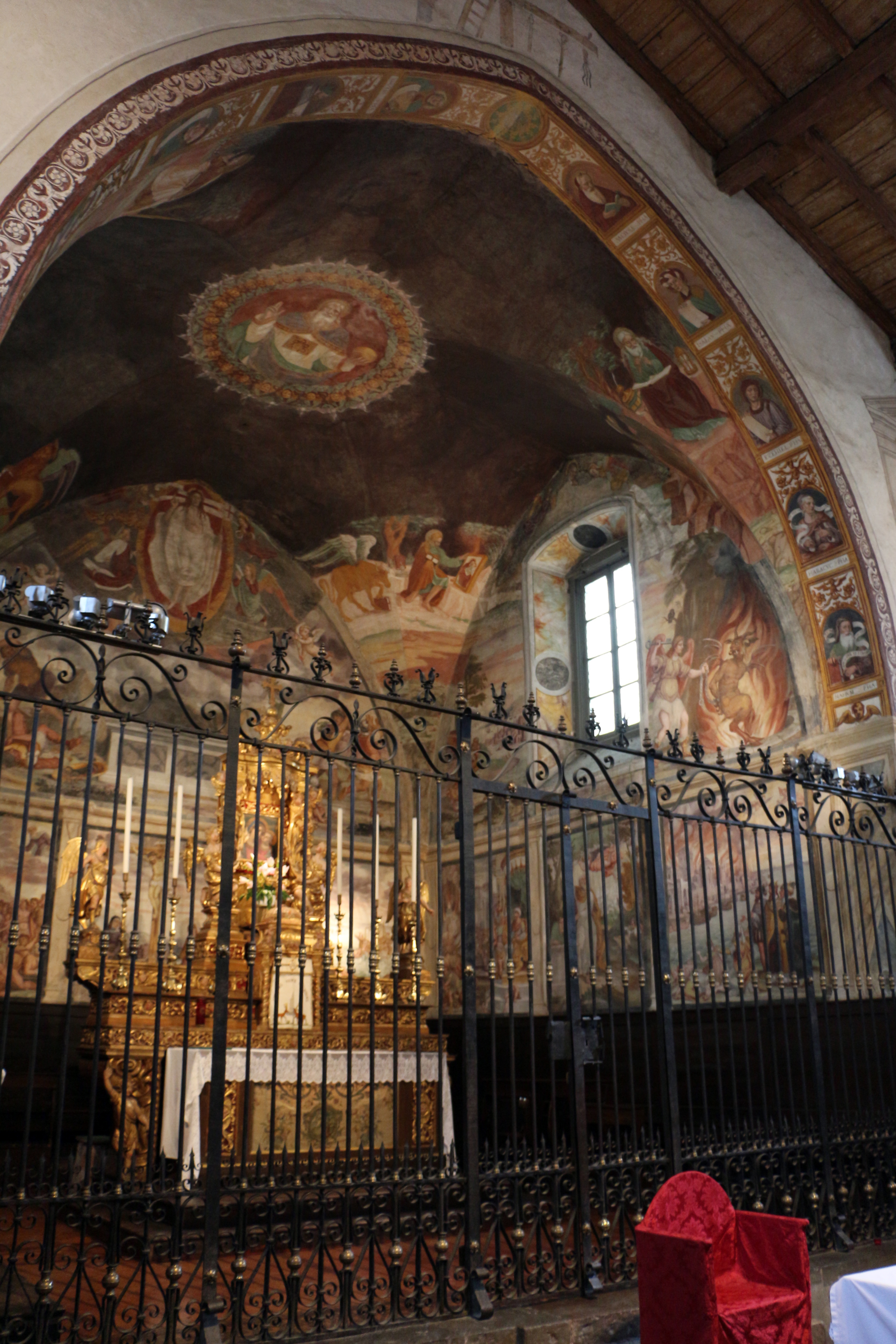 San Michele al Pozzo Bianco